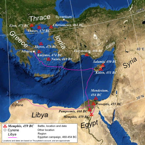 Map of the eastern Mediterranean, showing the location of battles fought by the Delian League, 477–450 BC